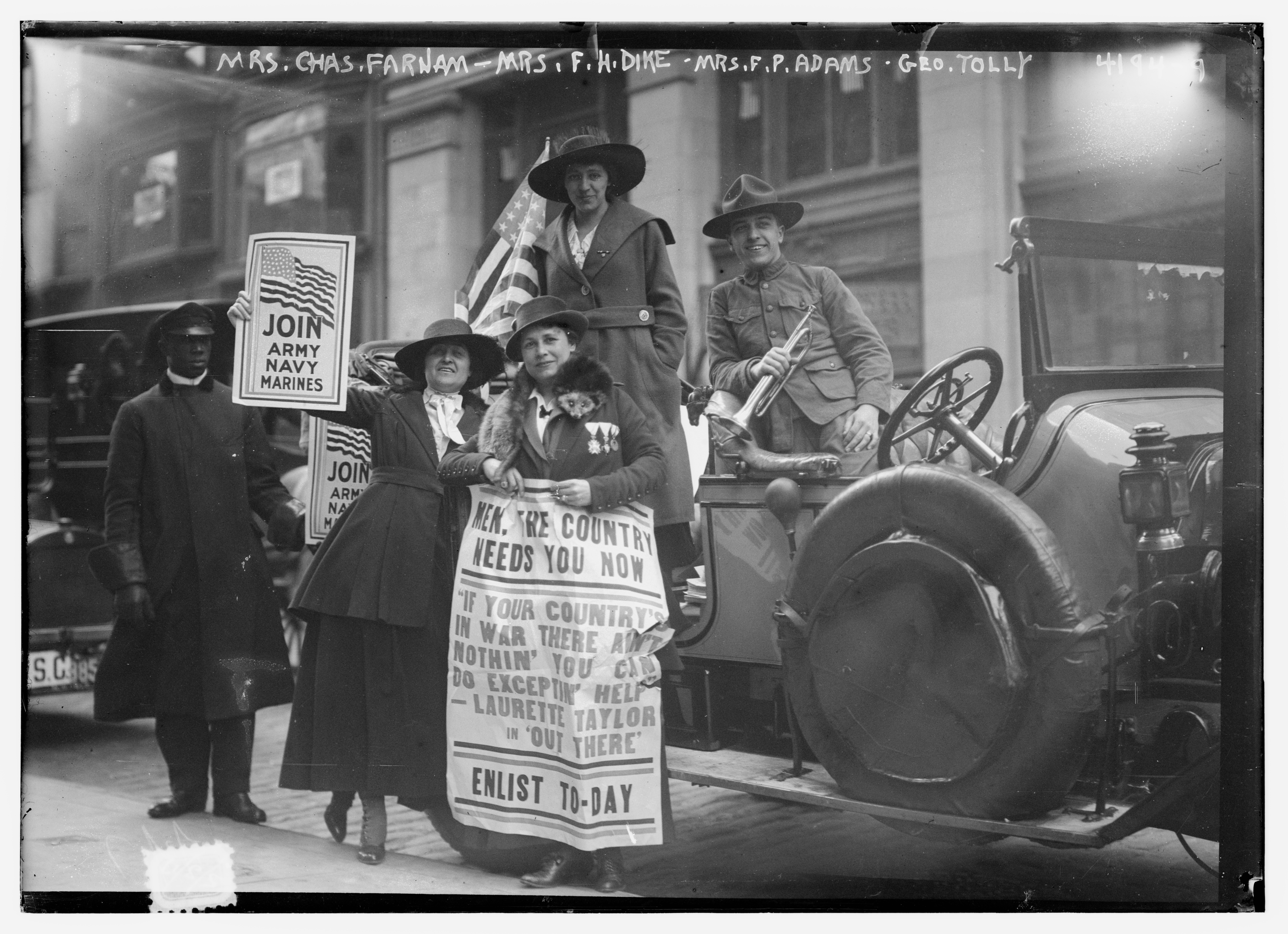 Bain News Service,, publisher. Mrs. Chas. Farnam, Mrs. F.H. Dike, Mrs. F.P. Adams, Geo. Tolly [between ca. 1915 and ca. 1920] 1 negative : glass ; 5 x 7 in. or smaller. Notes: Title from unverified data provided by the Bain News Service on the negatives or caption cards. Forms part of: George Grantham Bain Collection (Library of Congress). Format: Glass negatives. Repository: Library of Congress, Prints and Photographs Division, Washington, D.C. 20540 USA, General information about the Bain Collection is available at Higher resolution image is available (Persistent URL): Call Number: LC-B2- 4194-9